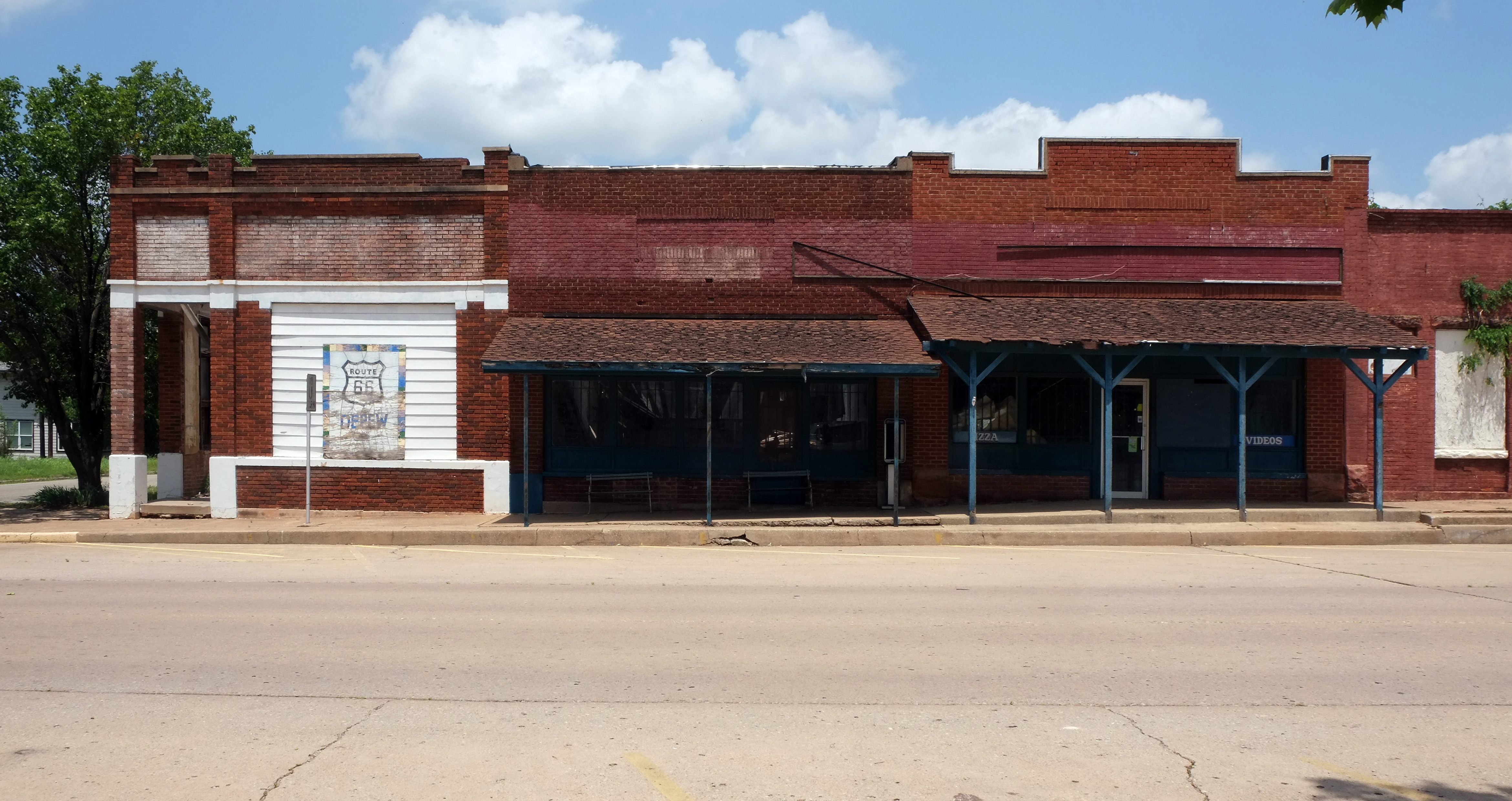 The ghost town of Depew, Oklahoma.